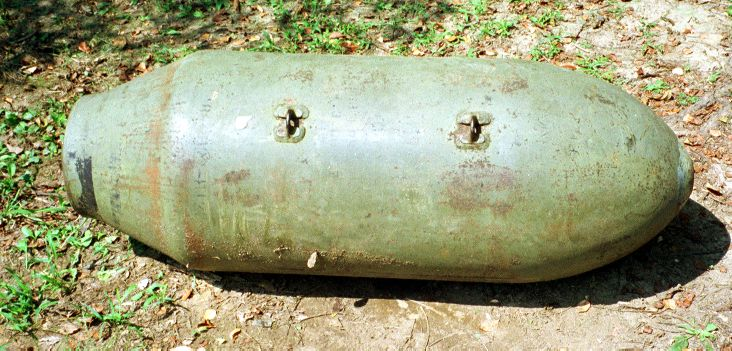 US BOMB, 1000 Lb, GP (472 kg, containing 270 kg Amatol)